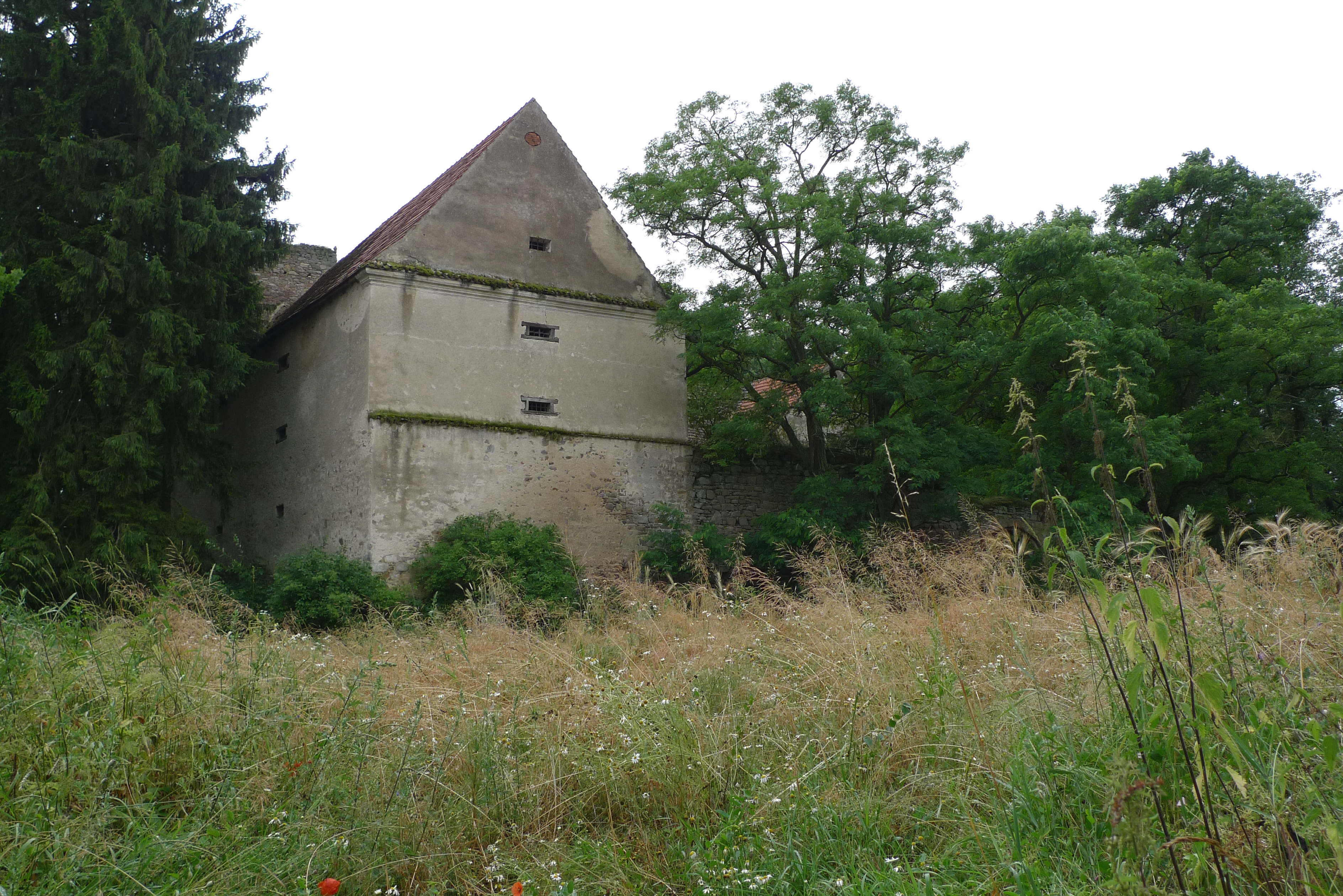 Village of Buzice in southern Bohemia - castle.